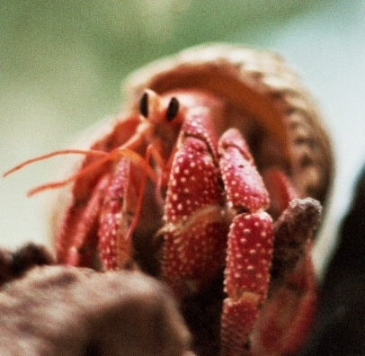 This photograph was taken by myself (Vanessa Pike-Russell) and is available online at